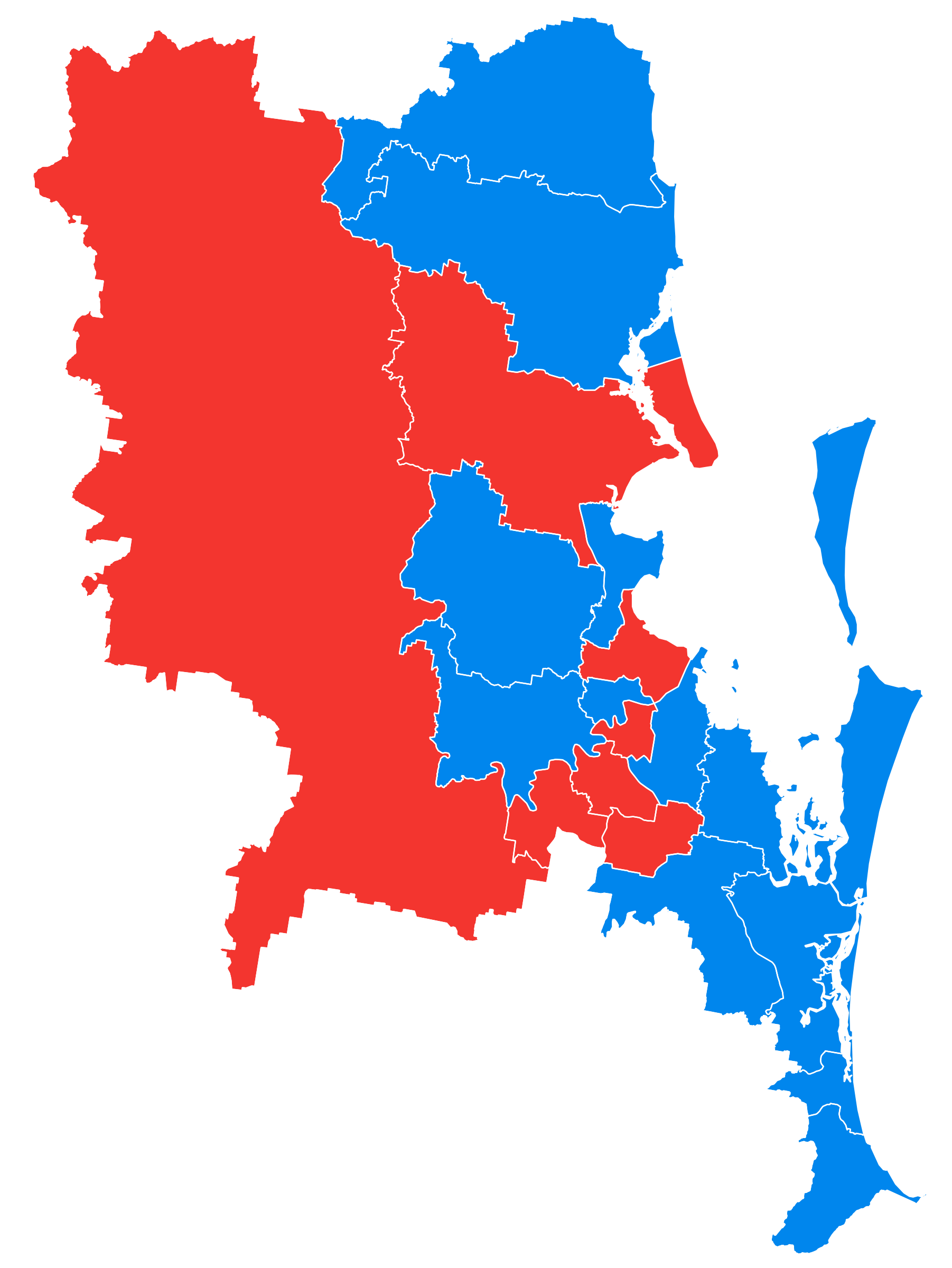 Results map of the Australian federal election, 2016 in Brisbane and south-east Queensland, showing federal electorates decorated in the color representing a win by a particular party.